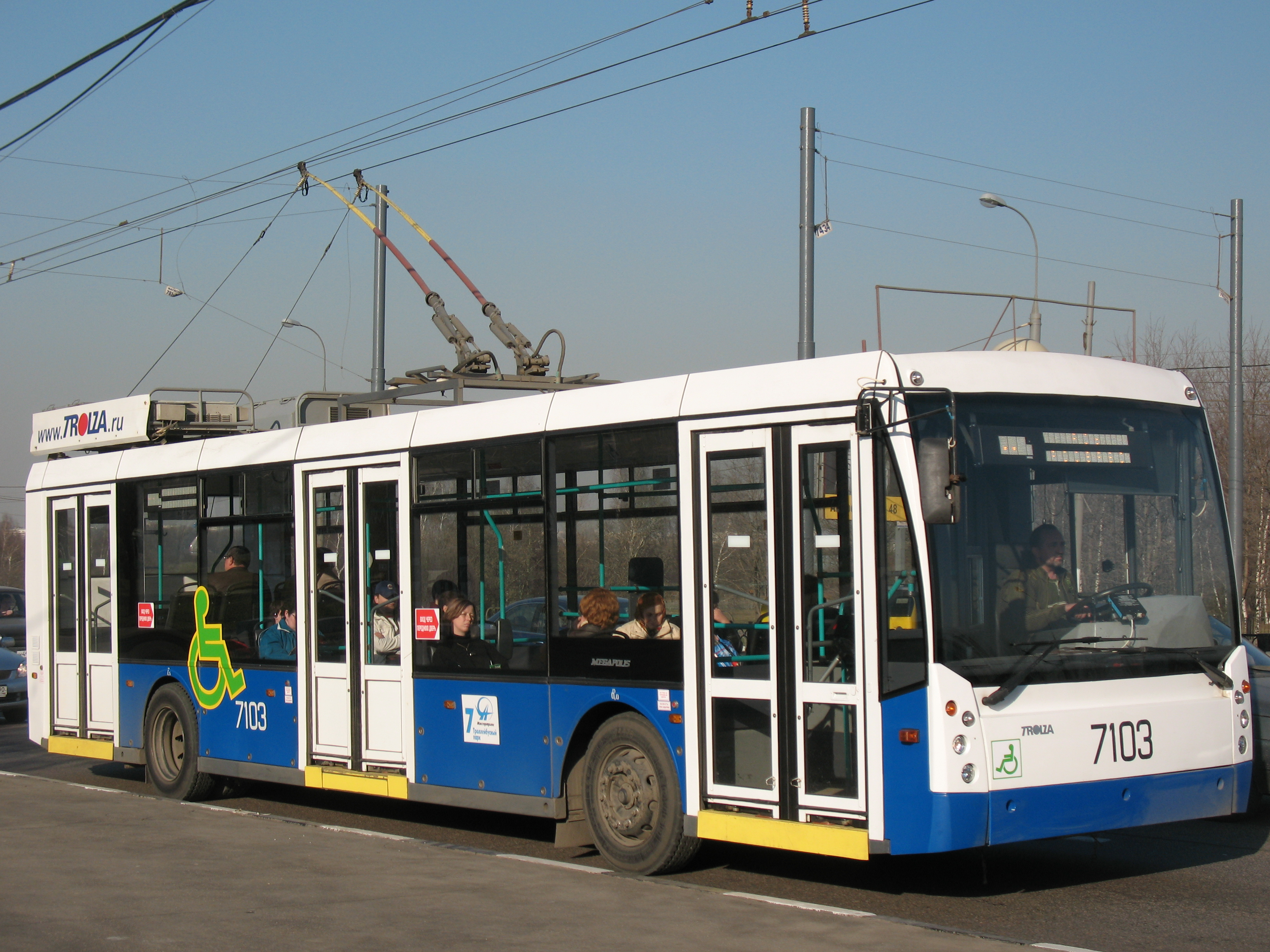 Moscow, trolleybus Trolza-5265 "Megapolis". Metro Kashirskaya.